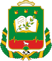 Michurinsk (Tambov oblast) (2003)